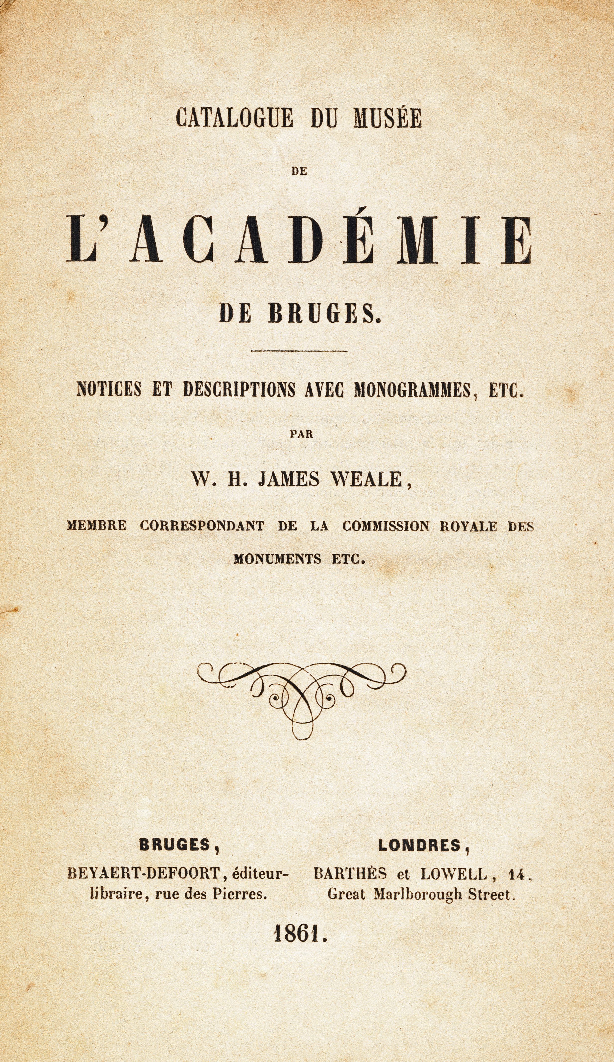 Title page of the book Catalogue du Musée de l'Académie de Bruges (Bruges and London, 1861) by W.H. James Weale